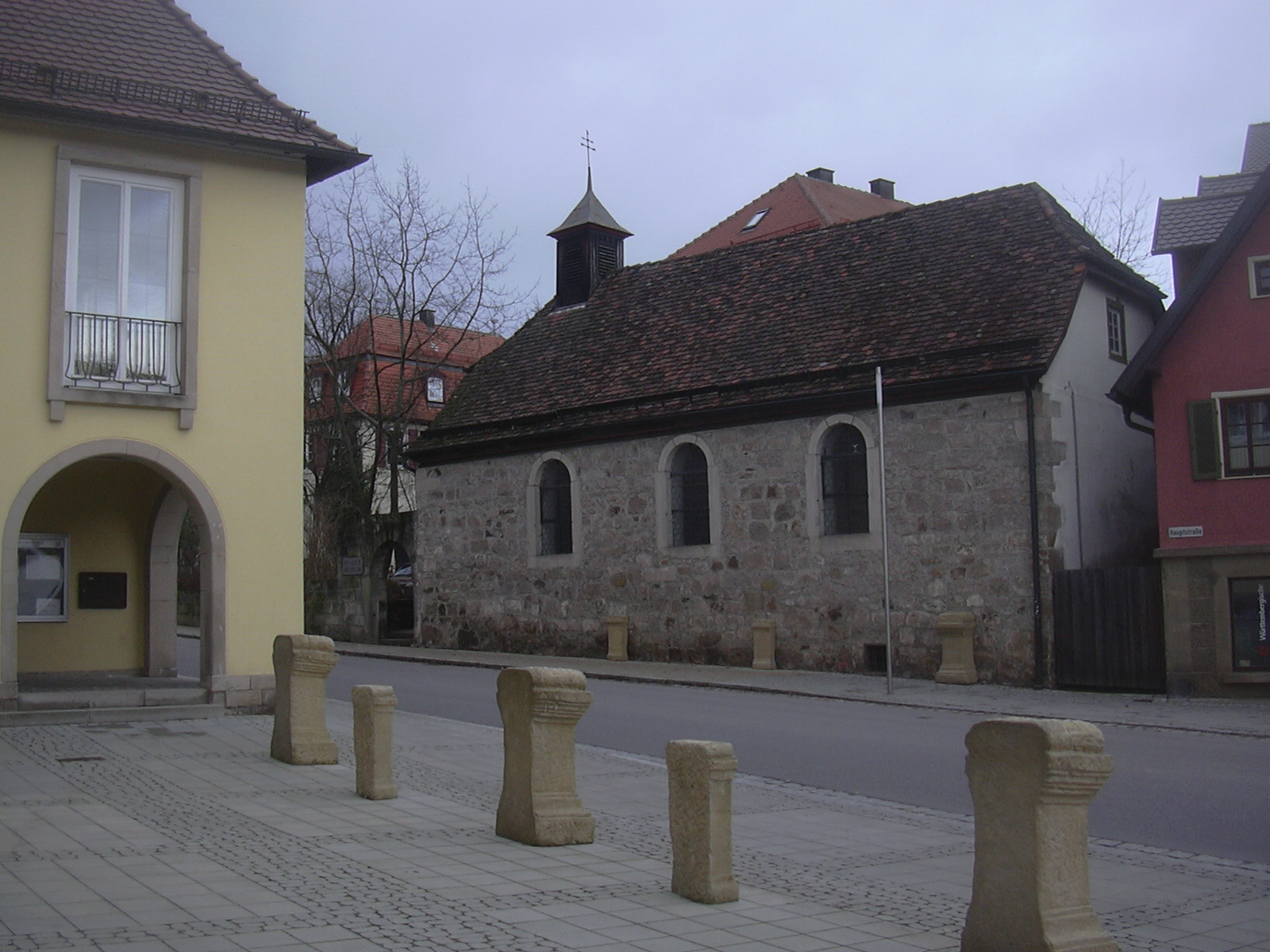 Town hall, Roman museum, and replica of Roman stones in Mainhardt, Germany